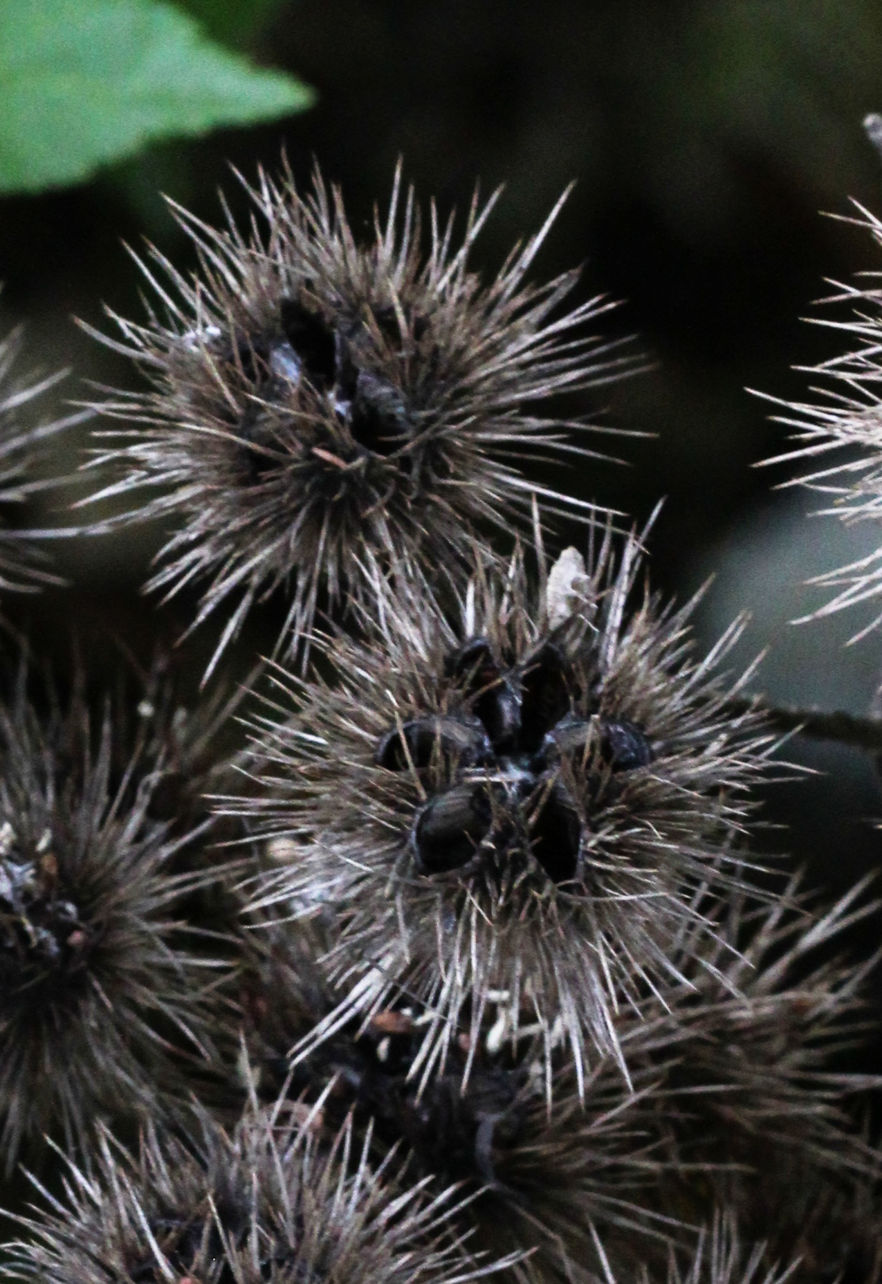 Spiky seed pods of the whau tree (Entelea arborescens). Taken in Auckland, New Zealand.